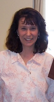 American political scientist and international relations professor Patricia A. Weitsman, in her office at Ohio University in Athens, Ohio.